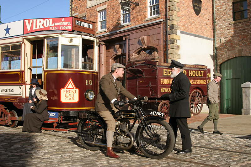 Beamish Museum, County Durham, England. A busy scene sees no less than 5 reenactors and 3 modes of transport at the east and of the main street in Town. Almost obscured by all the activity, the building is the west facade of the bank. Out of shot to the left is a tram stop, which together with the fact there's no driver in the cab, presumably explains why the two ladies feel confident that Tram No. 10 isn't going anywhere any time soon. The horse drawn furniture wagon is perhaps kept in the small garage building here, squeezed between the bank and the Masonic Lodge. The gentleman on the motorcylce appears to have been stopped by a policeman, perhaps for speeding in a built up area?